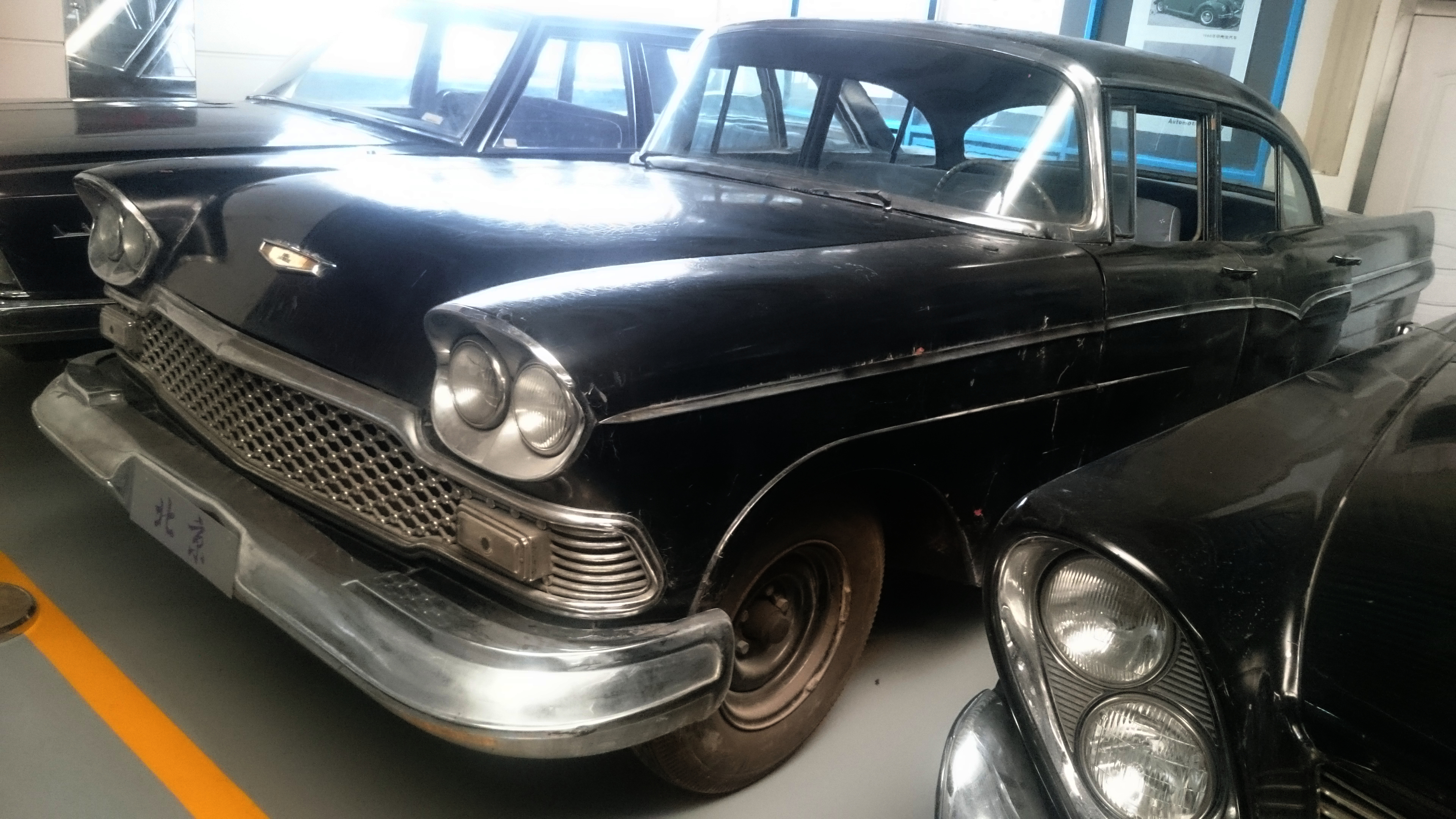 1960 Beijing CB4 luxury car in Automotive Laboratory of Jilin University.